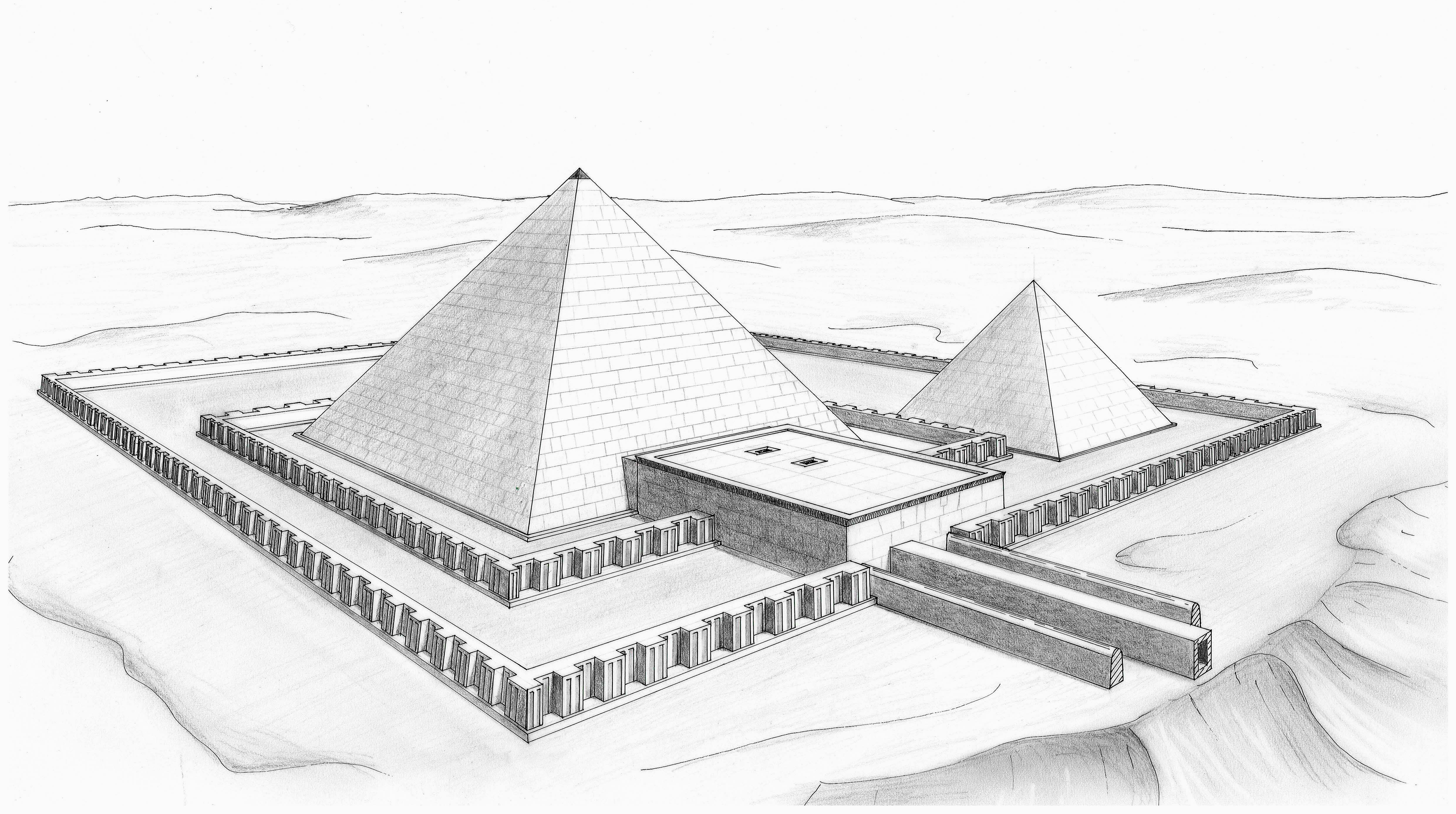 The Pyramid of Khendjer, Pharaoh Khendjer, ca. 1765 BC, ~4+ year reign